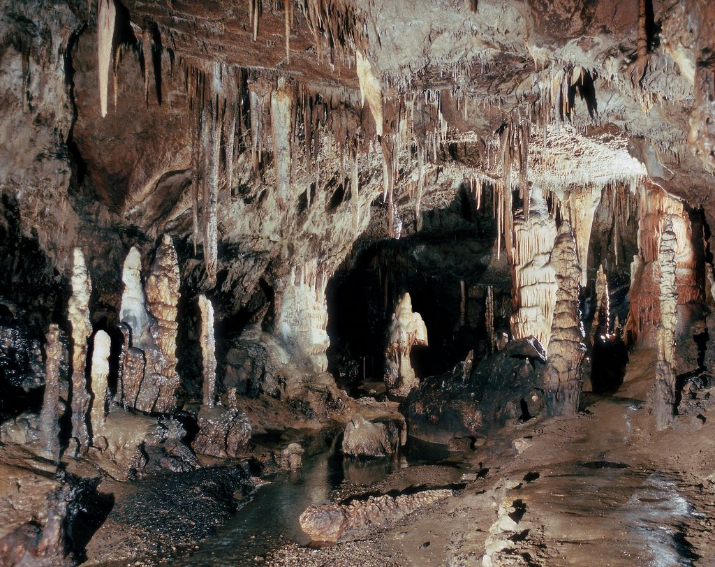 “Minerva's helmet” in Baradla Cave